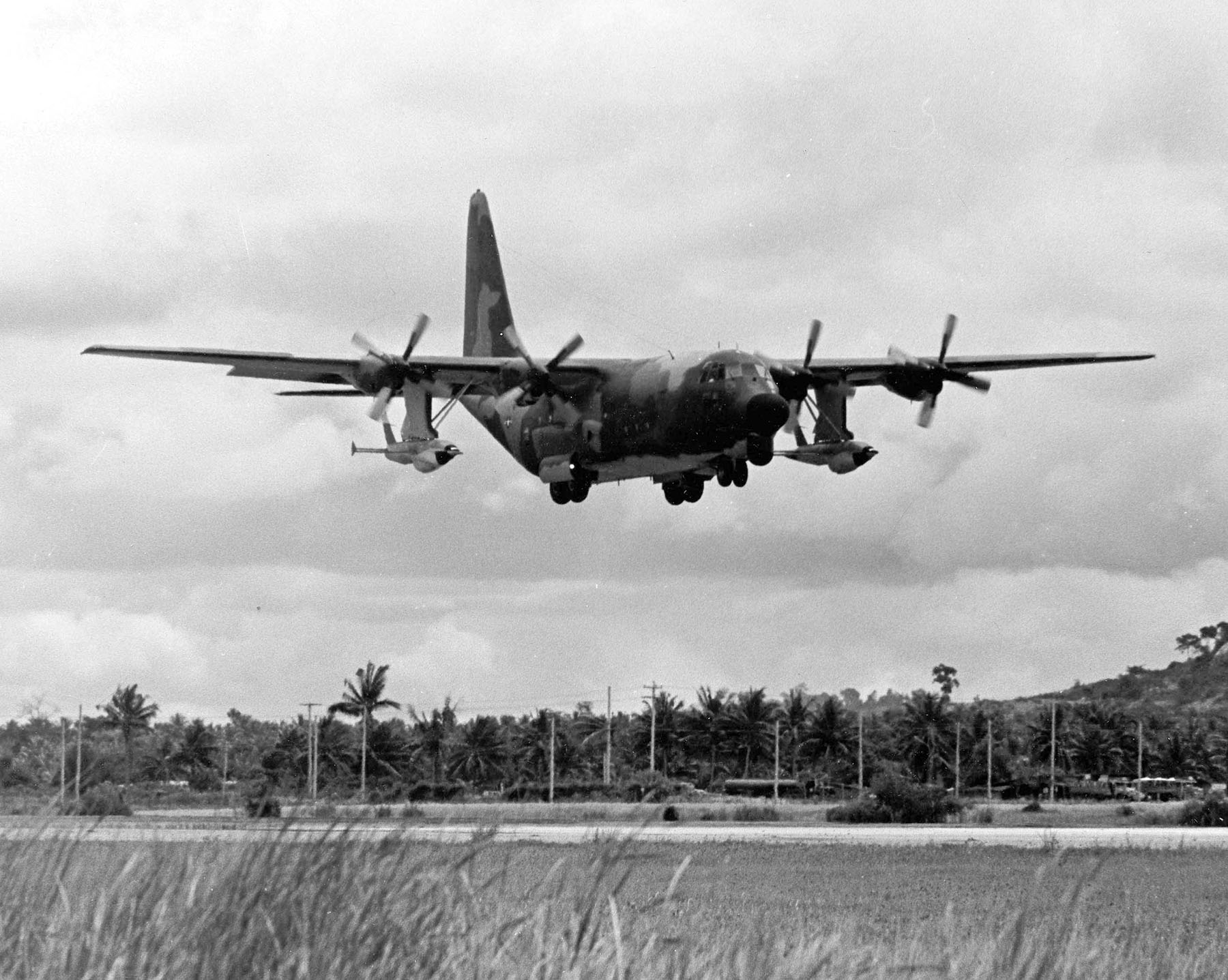 A U.S. Air Force Lockheed DC-130A Hercules taking off on a mission in Southeast Asia, carrying two Ryan AQM-34 Firebee drones. Firebees flew reconnaissance missions using a pre-programmed guidance system or by remote control from the DC-130 crew.